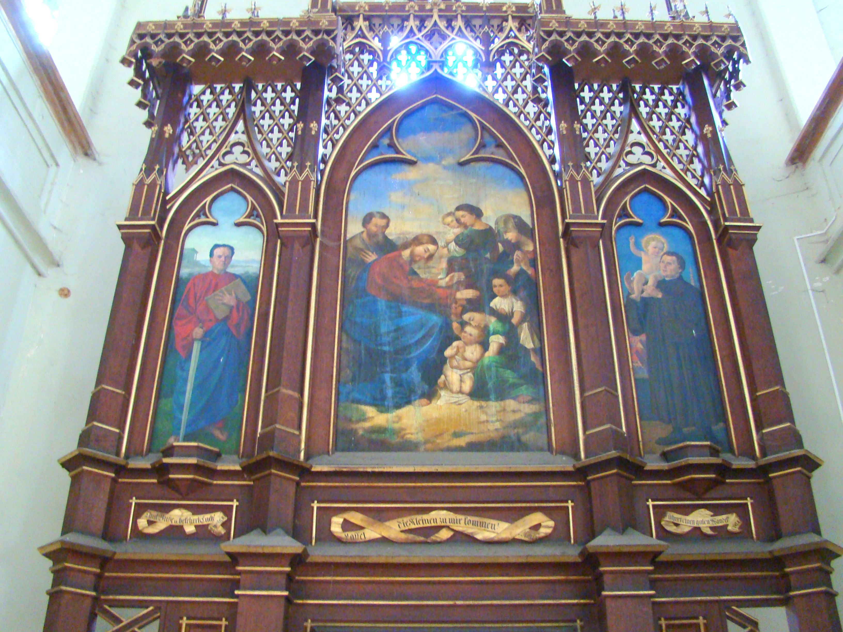 Lutheran church in Șercaia, Brașov County, Romania